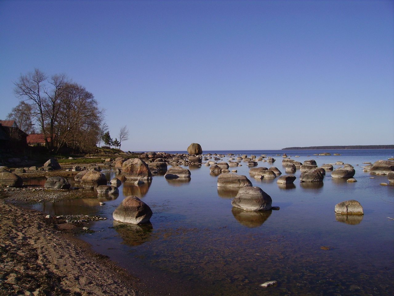 Lemeti kivi Käsmu rannas.